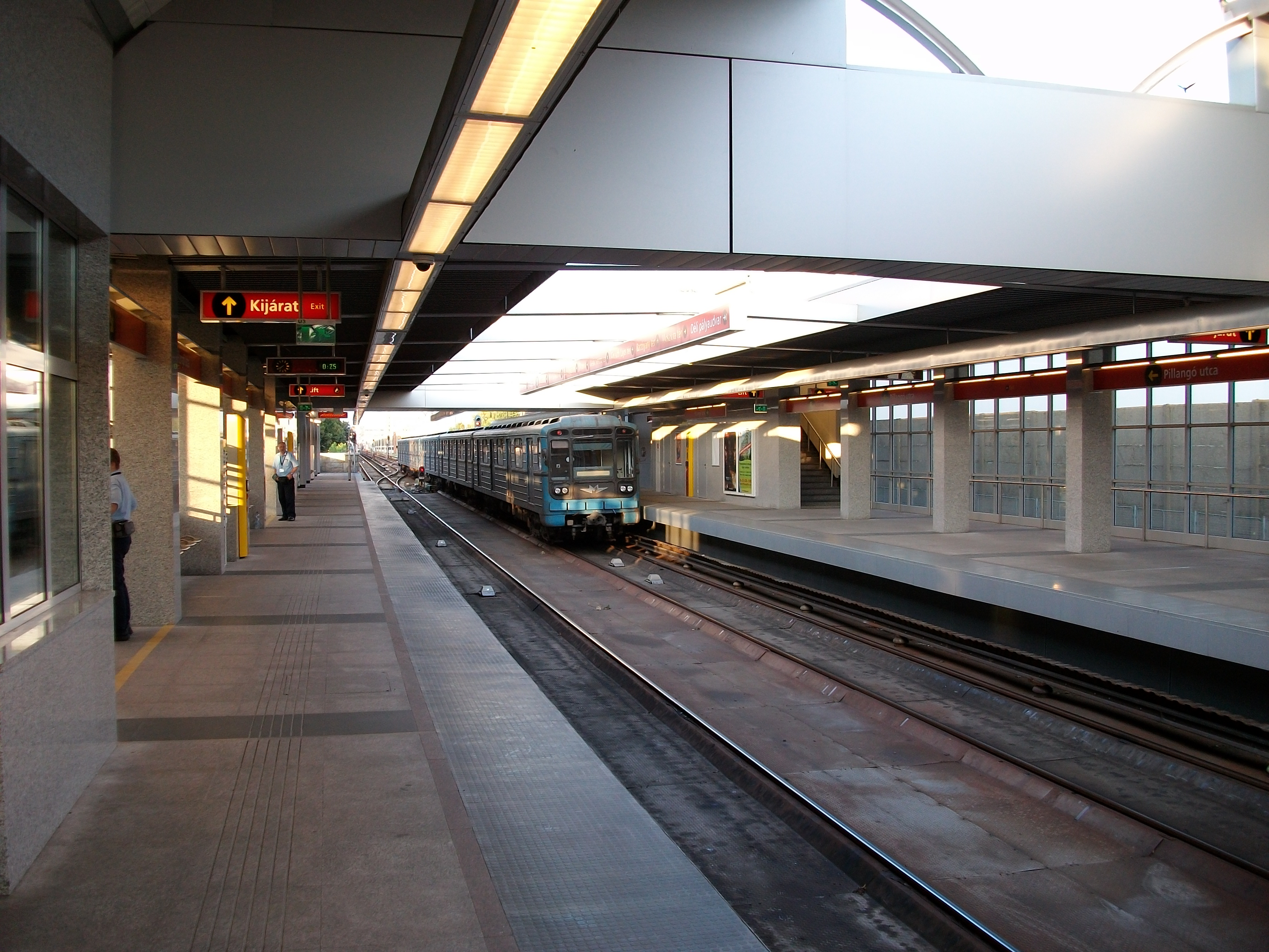 Pillangó utca metro station, Budapest, Hungary